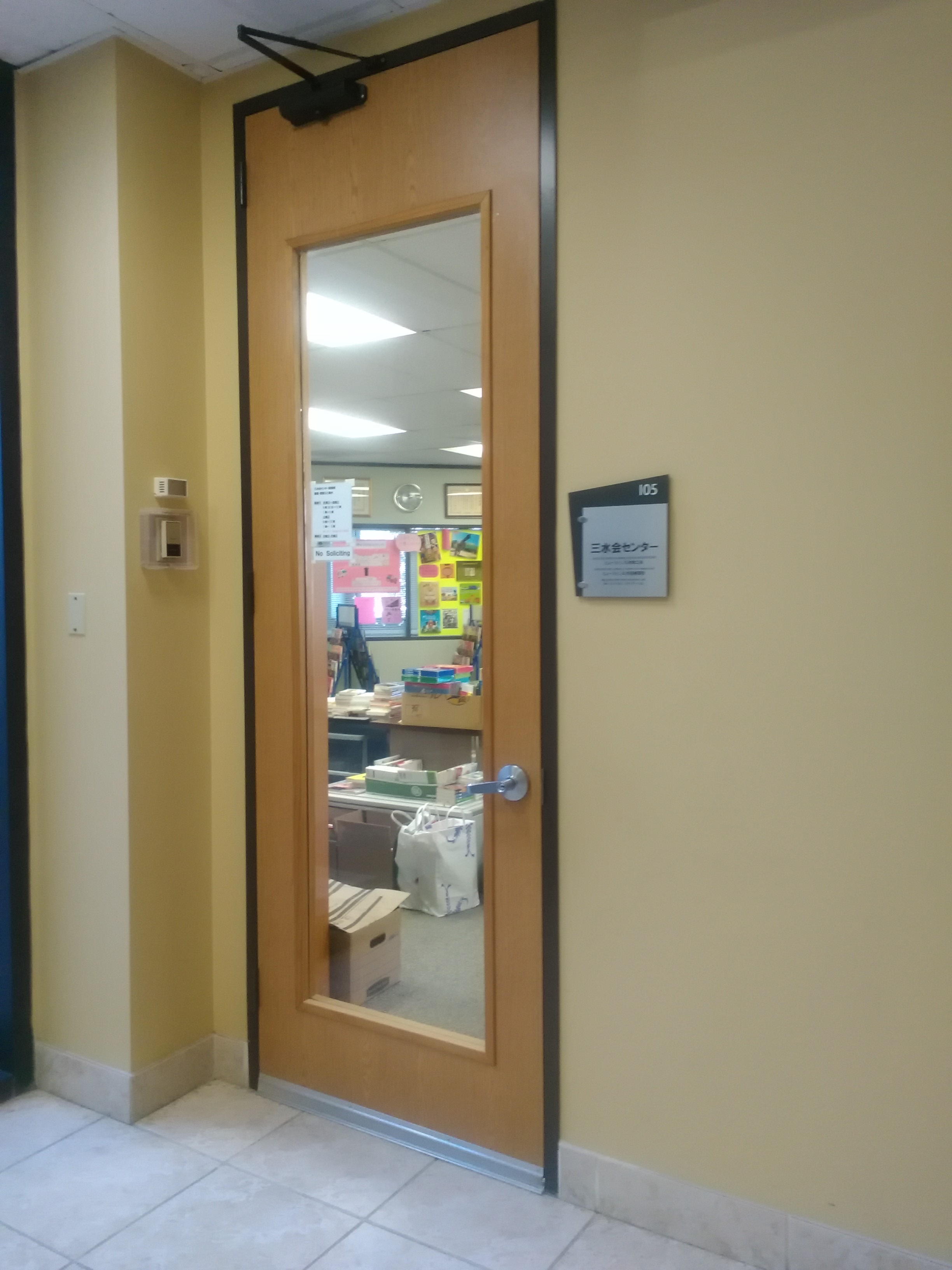 Sansui-Kai Center (三水会センター) - Includes the Sansui-Kai Center Library (三水会センター図書館) and offices of the Japan Business Association of Houston, the Japanese Educational Institute of Houston, and the JBA Houston Foundation Inc. (JBAヒューストンファンデーション)